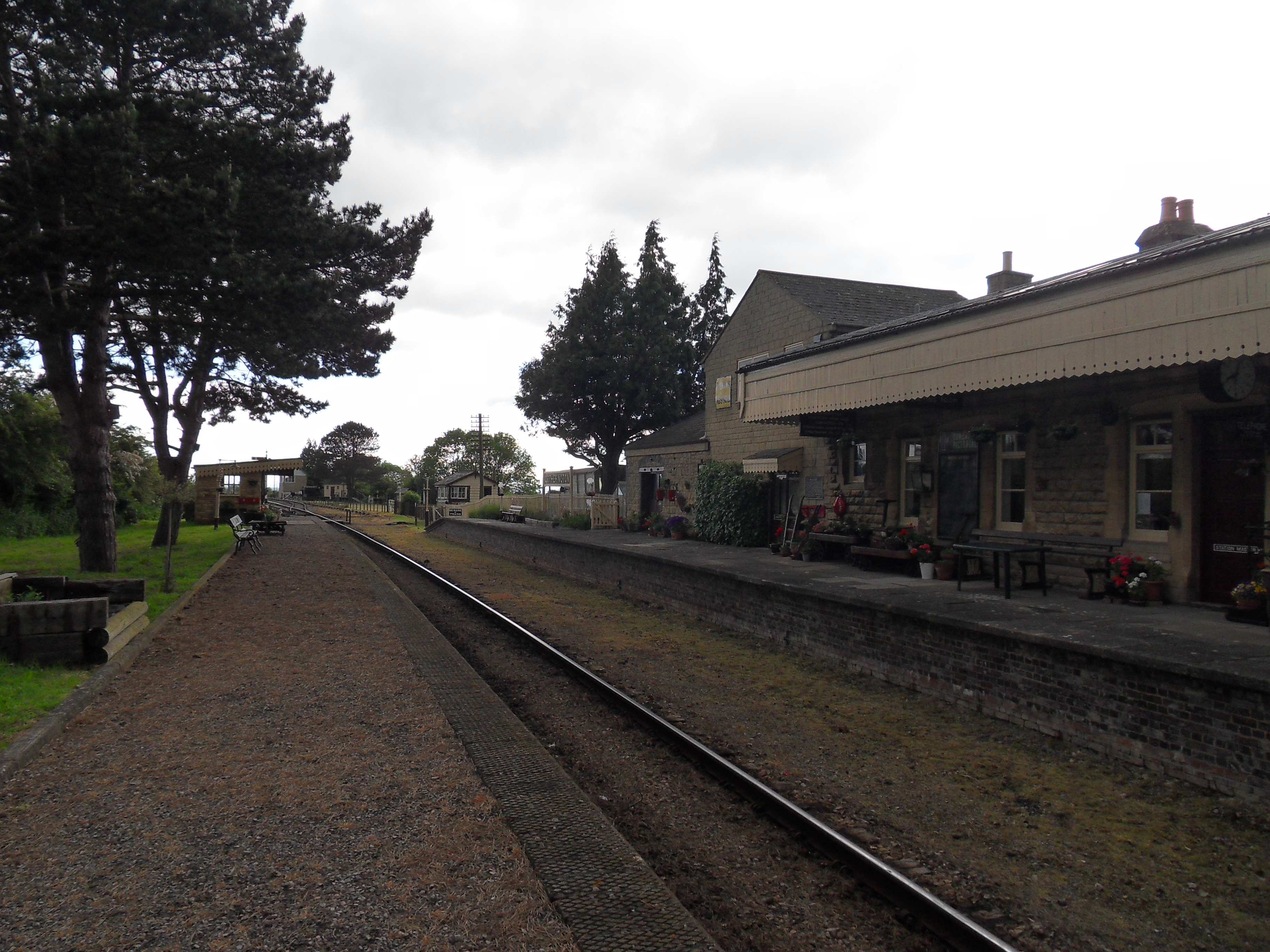 Gotherington station looking towards Cheltenham.